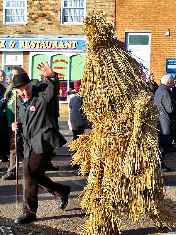 The Whittlesea straw bear 2008 taken by kev747